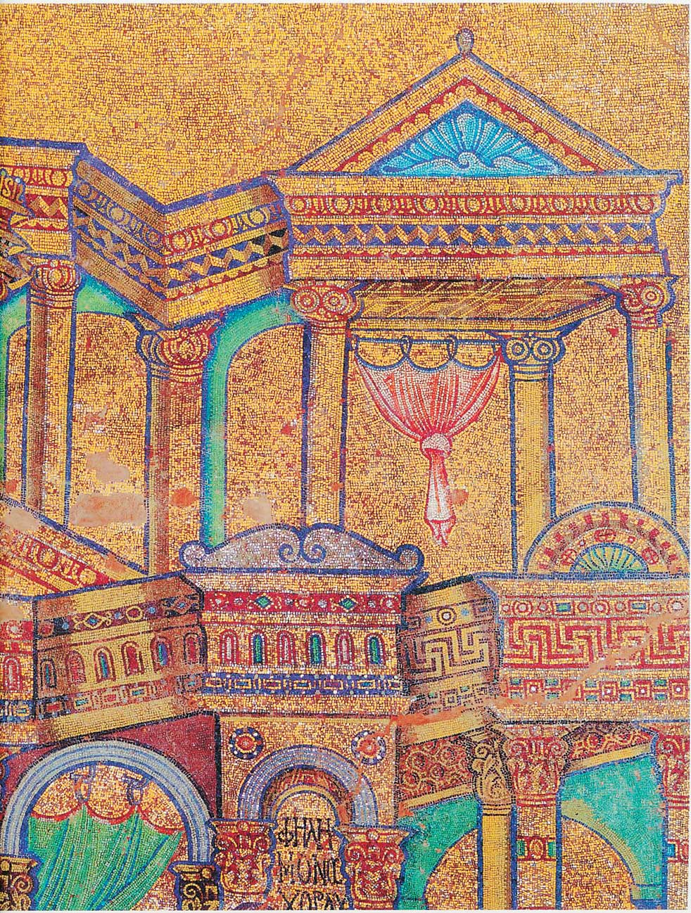 Mosaic in Rotoda, Thessaloniki, Greece.